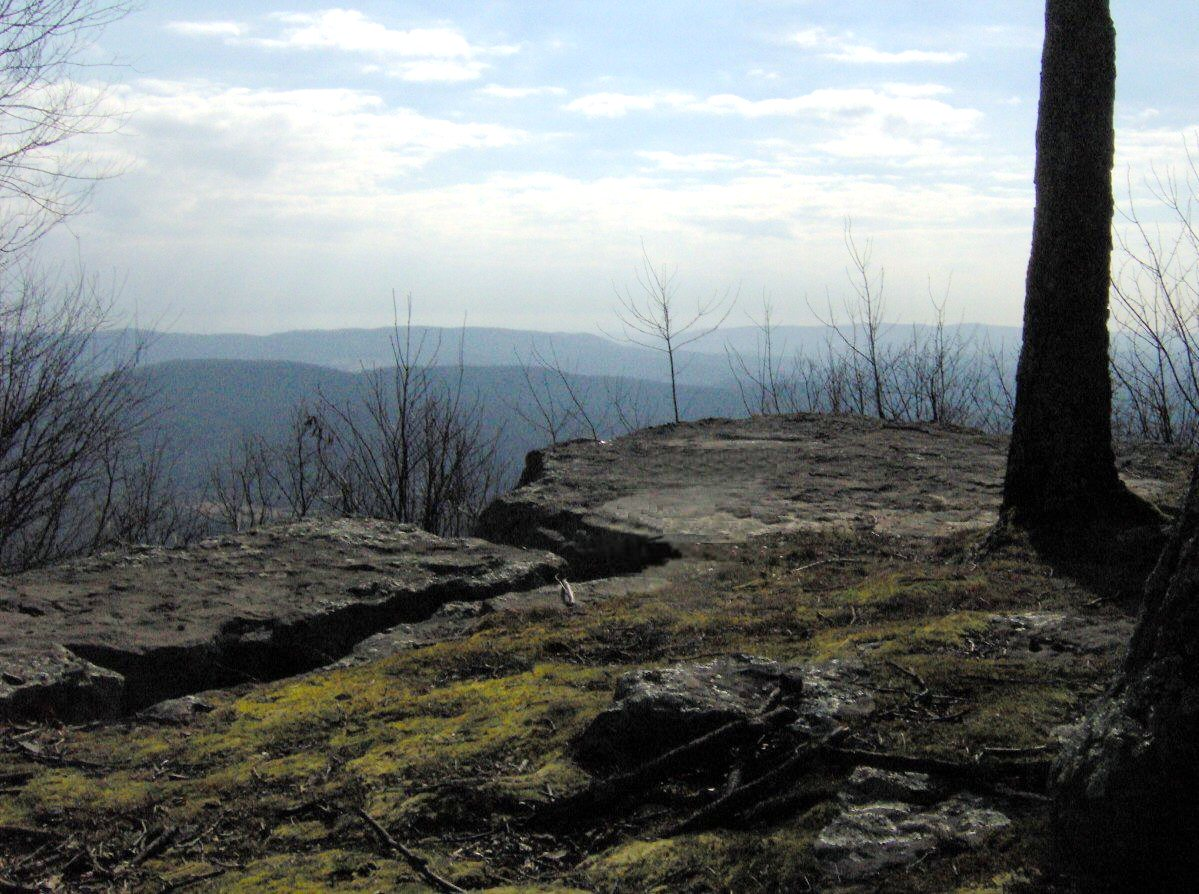 Coyote Point, on the south slope of Lone Mountain, just below the summit. Lone Mountain is located in Morgan County, Tennessee, in the Southeastern United States.